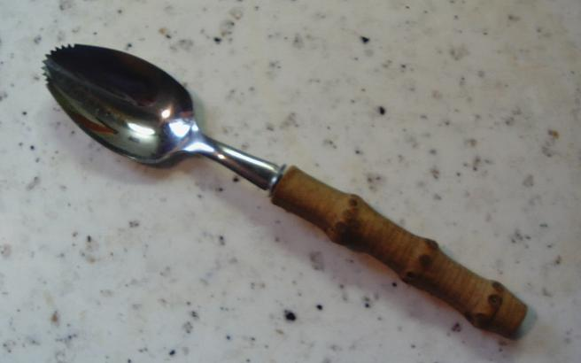 A grapefruit spoon with wooden handle. Note the serrated tip.